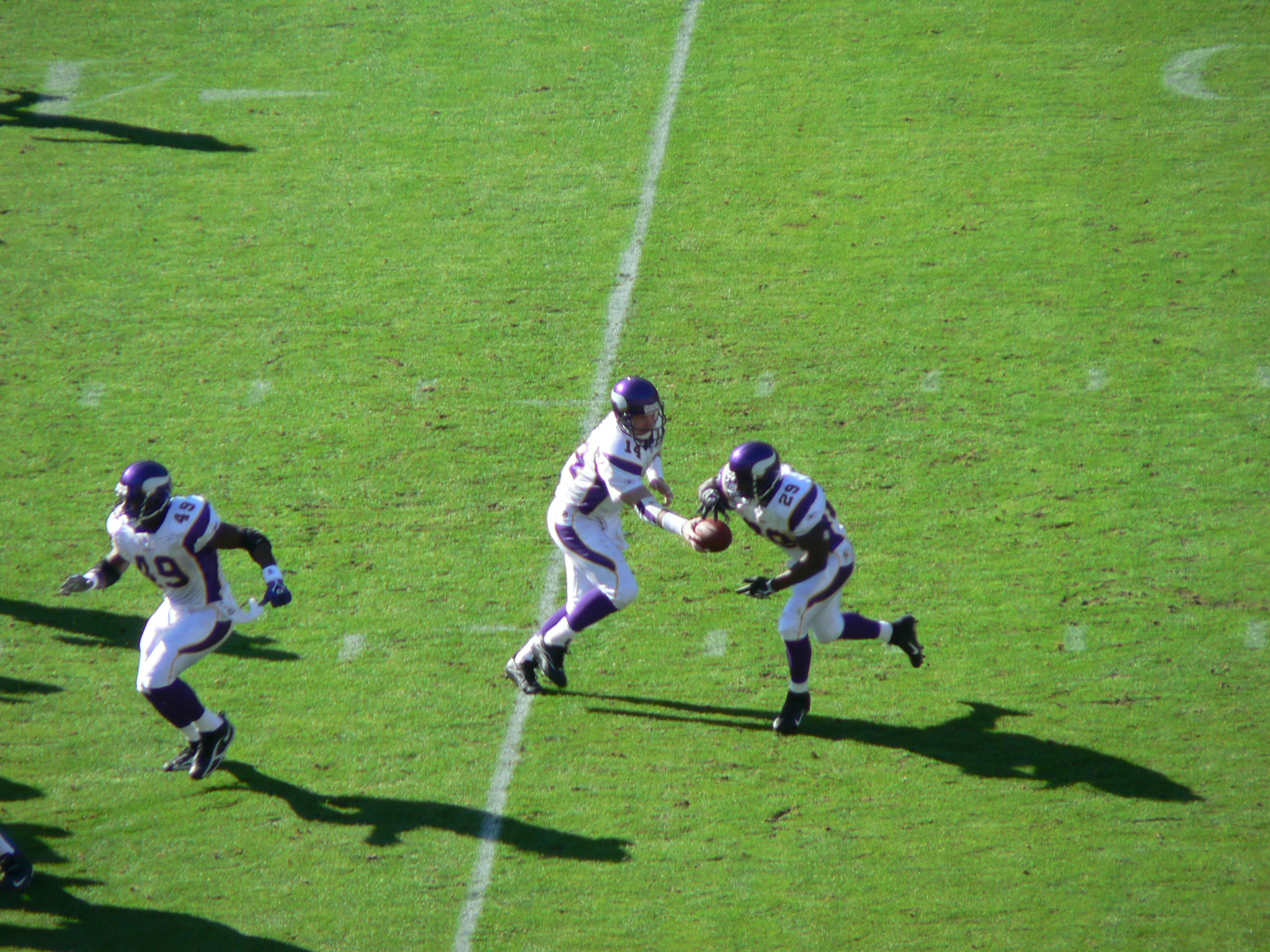 Minnesota Vikings quarterback Brad Johnson hands off the ball to running back Chester Taylor.